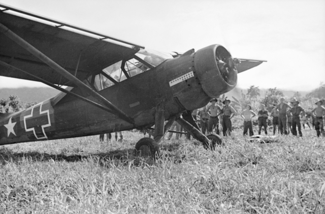 Kokoda, Papua, 1942-11. A United States Army Air Force (USAAF) Stinson L-1 Vigilant ambulance aircraft prepares to take off from the Kokoda airstrip, as a group of Australian soldiers looks on (rear). The aircraft is evacuating two sick or wounded Australian soldiers to Port Moresby from the Main Dressing Station (MDS) of the 2/4th Field Ambulance which is established near the airstrip. The Stinson was capable of carrying two patients, one lying and one sitting, on its evacuation flights. A large Red Cross sign and a USAAF star are painted on the aircraft's fuselage (left), the Red Cross indicating the Stinson's medical function. The nose of the aircraft bears a tally sheet of smaller crosses which records the number of medical evacuation missions it has undertaken.